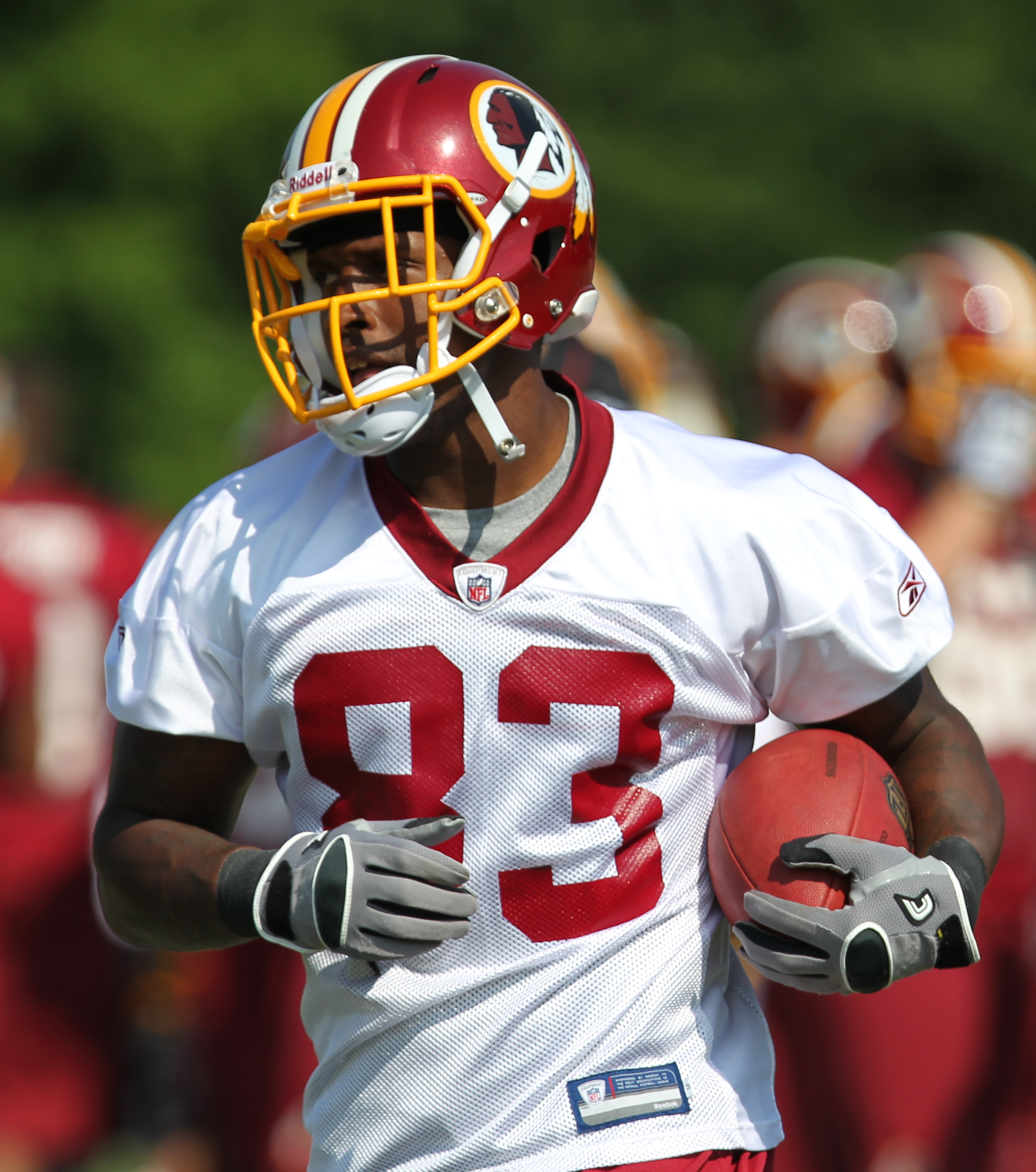 Washington Redskins Training Camp August 4, 2011